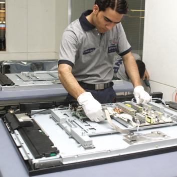 Tv Assembly Line